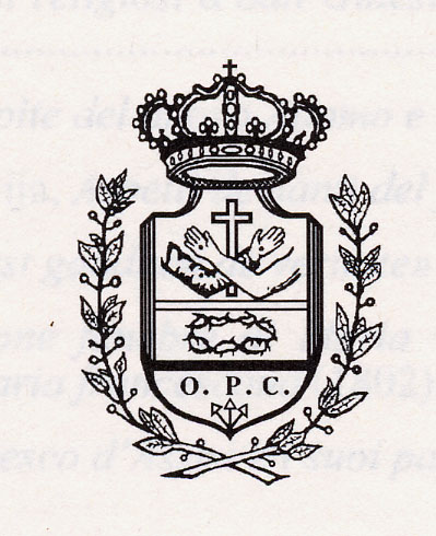 Emblem of the Terciary Order Regular of St. Francis